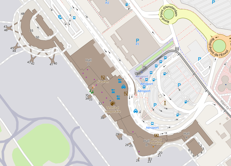 Map of TLS airport